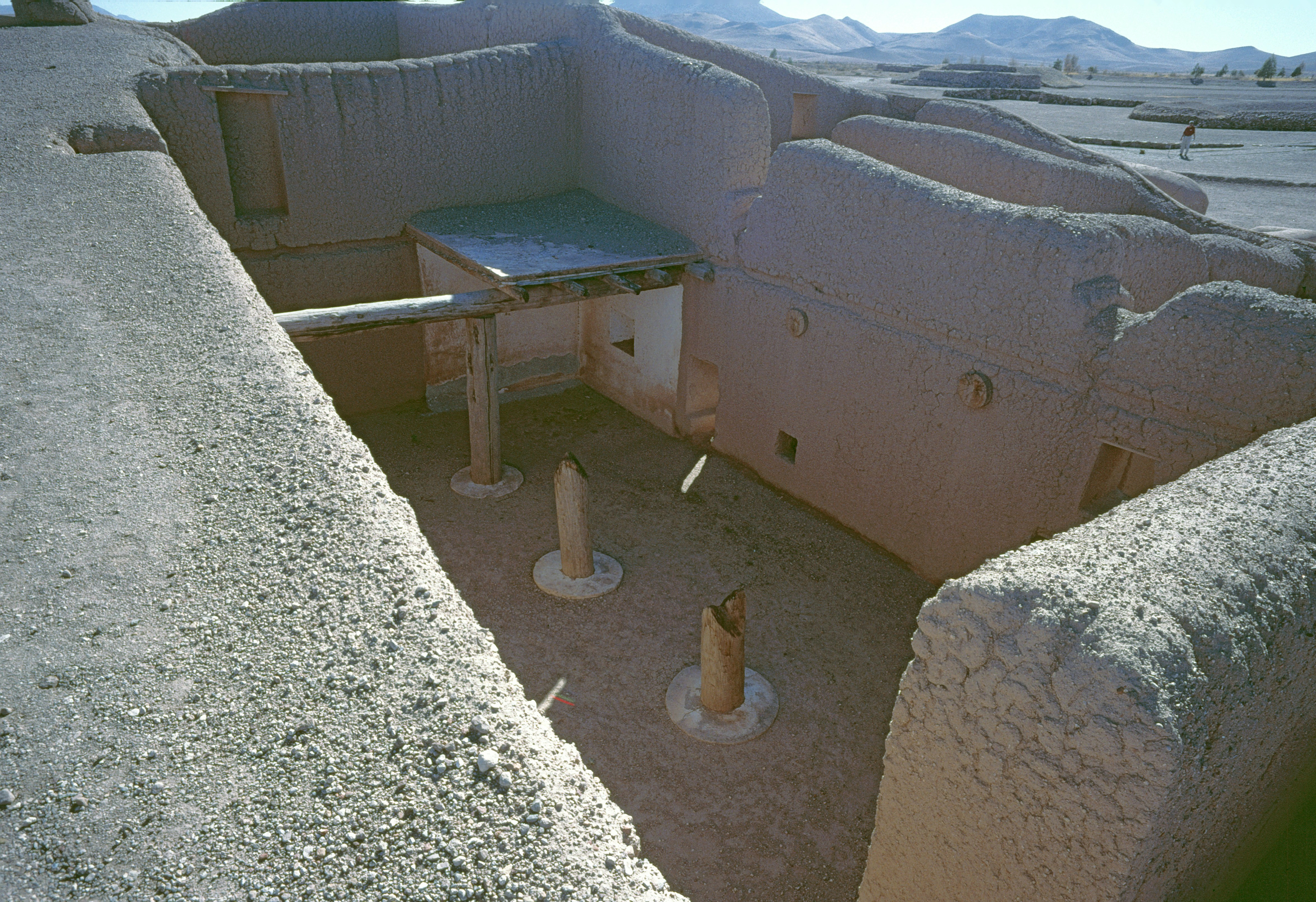 Paquimé, Chihuahua, Mexico: partially reconstructed residential building